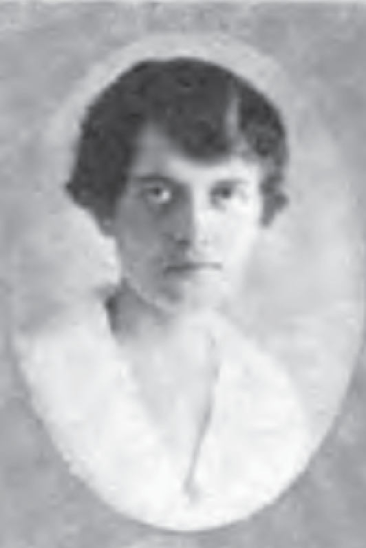 Augusta Rathbone, class picture in "The blue and gold", University of California, Berkeley, 1920